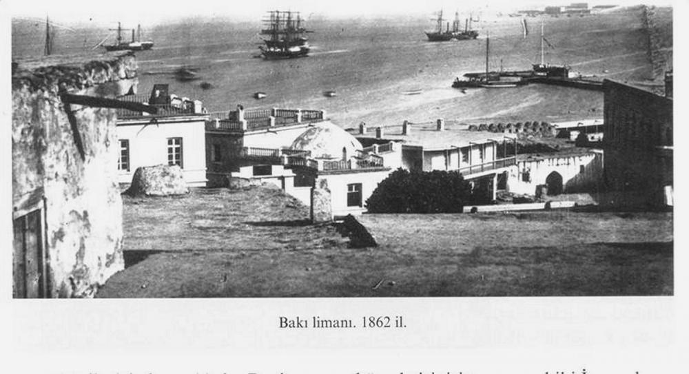 View of Baku bay from Ichery Sheher, 1862